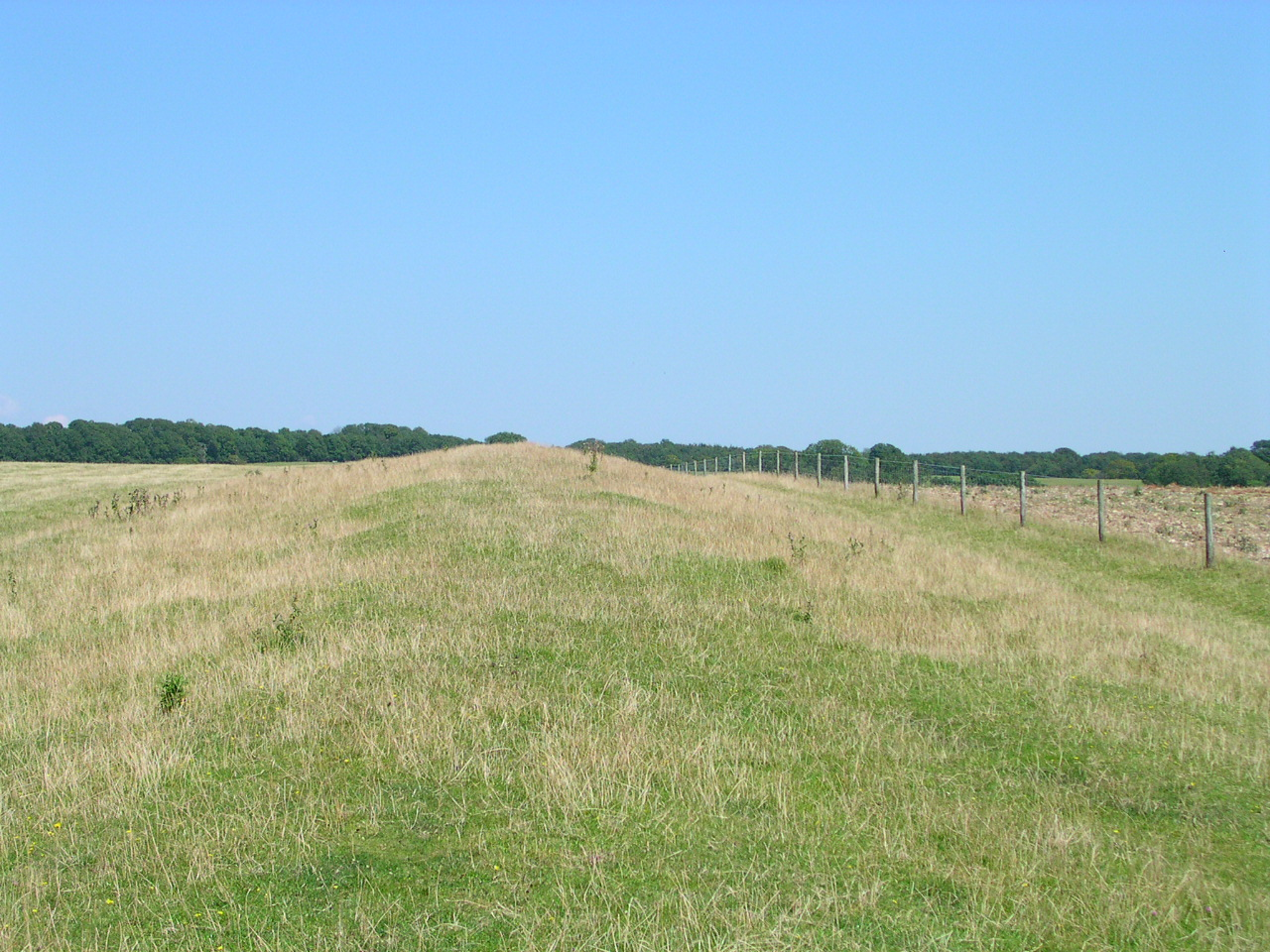 Stane Street on the South Downs near Bignor Hill, West Sussex, England.